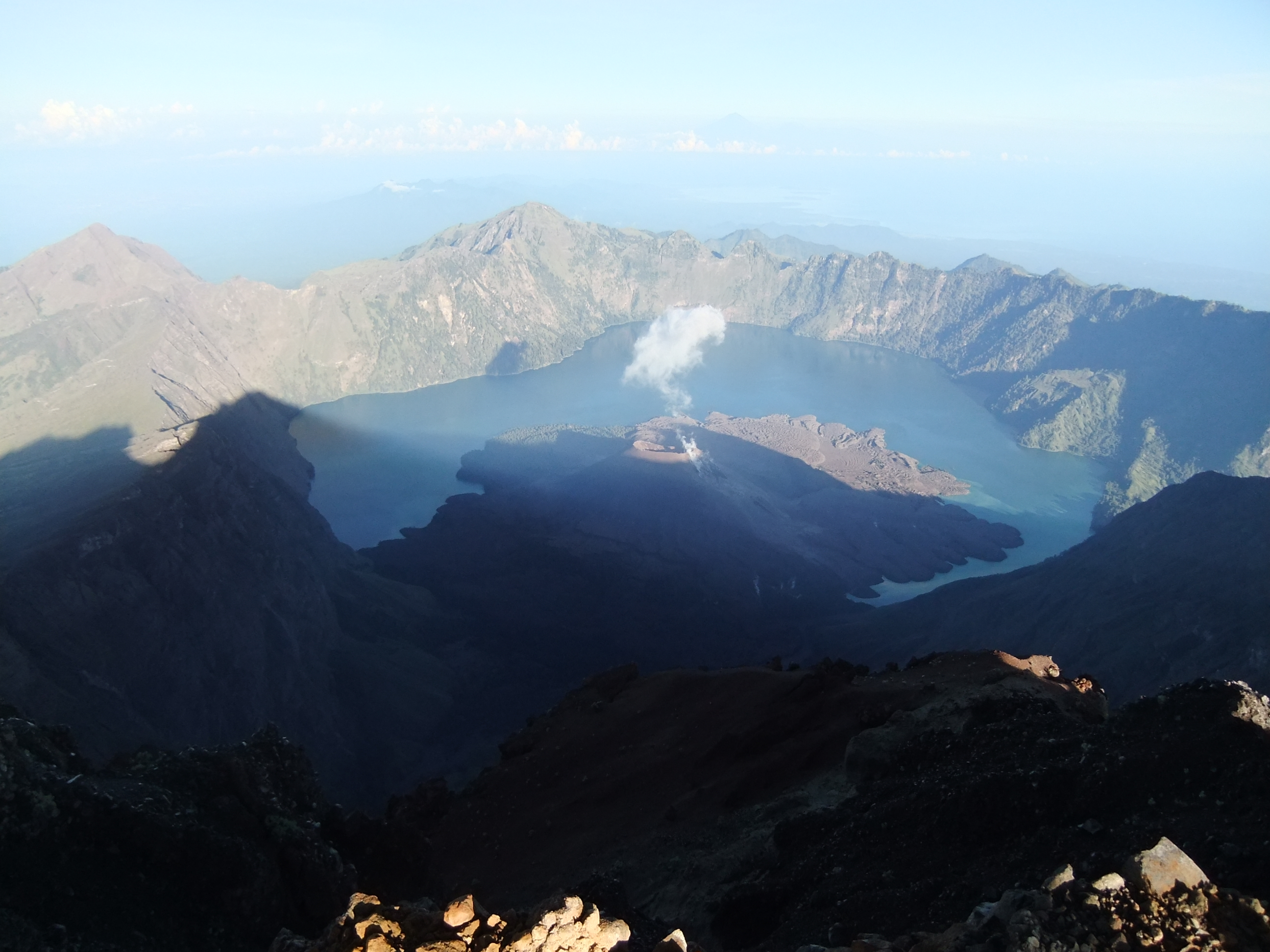 Segara Anak Lake and Mt. Barujari, view from Mt. Rinjani's summit